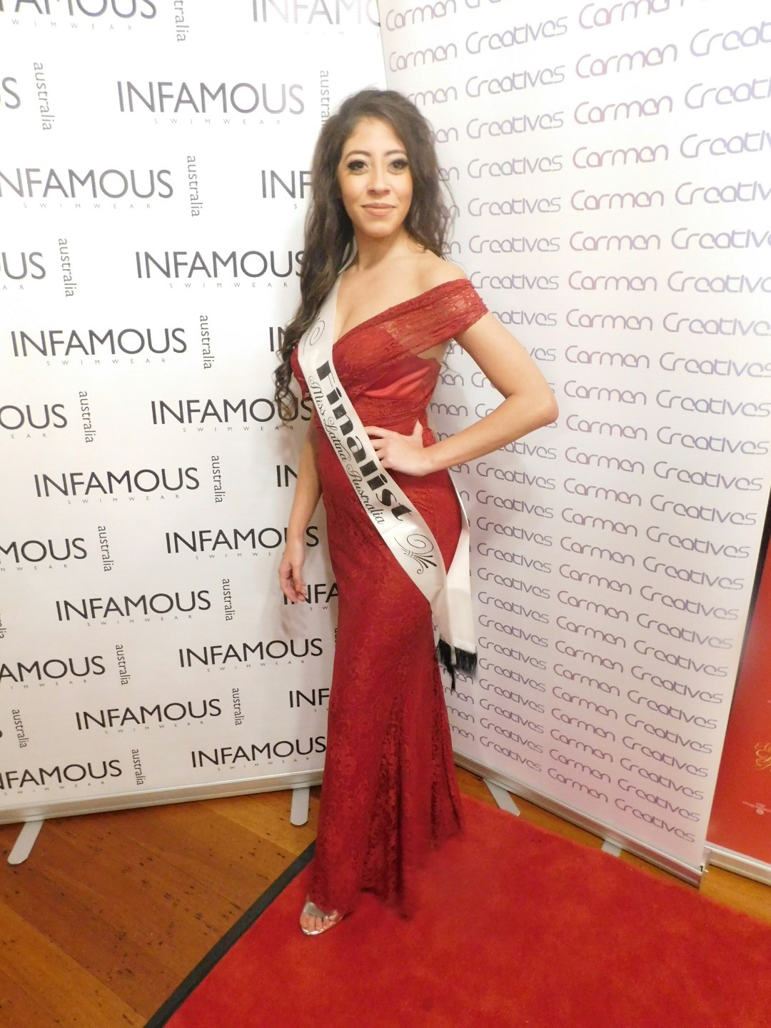 Miss Charity and 1st Runner Up Daniella Seoane at Miss Latina Australia 2016 in Melbourne